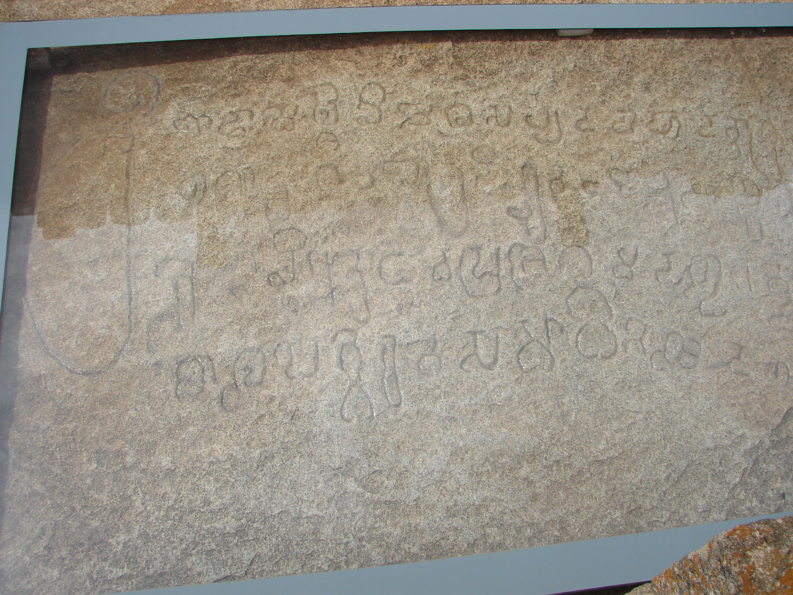 An 8th century Kannada inscription inscribed on rock surface (now protected by fibre glass) at Chandragiri Hill temple complex, Shravanabelagola, Karnataka India